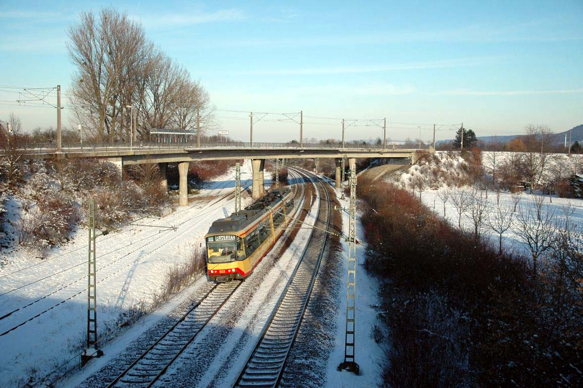 AVG's Car no. 853 of type GT8-100D, location: Karlsruhe-Durlach, train number: 85070